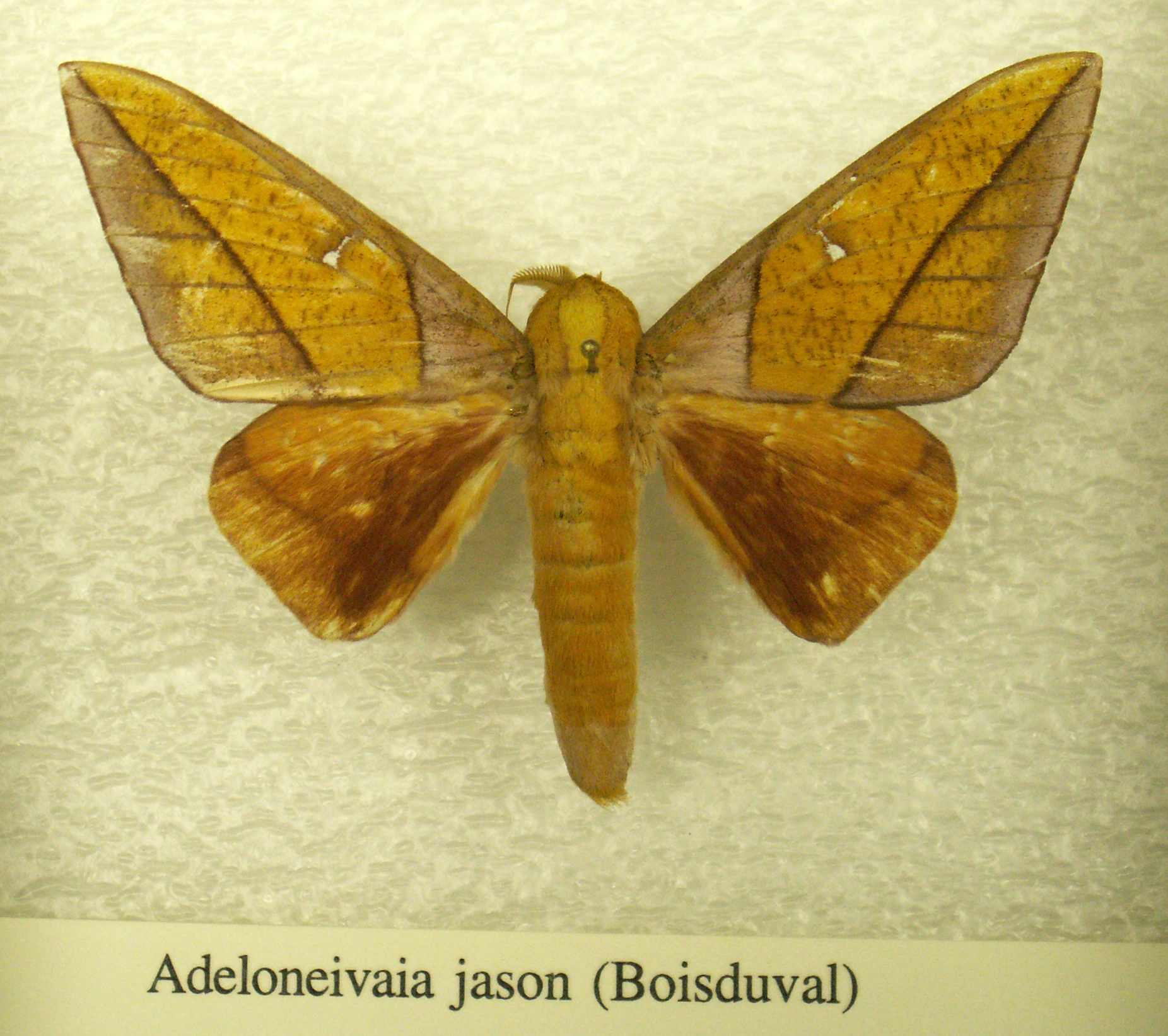 Adeloneivaia jason adult from the Texas A&M University Insect Collection